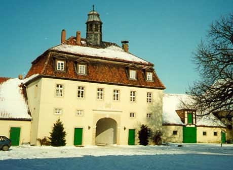 Entrance Portal of Beienrode